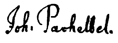 Johann Pachelbel's signature from the letter he wrote to Gotha city authorities, asking for permission to leave his post.